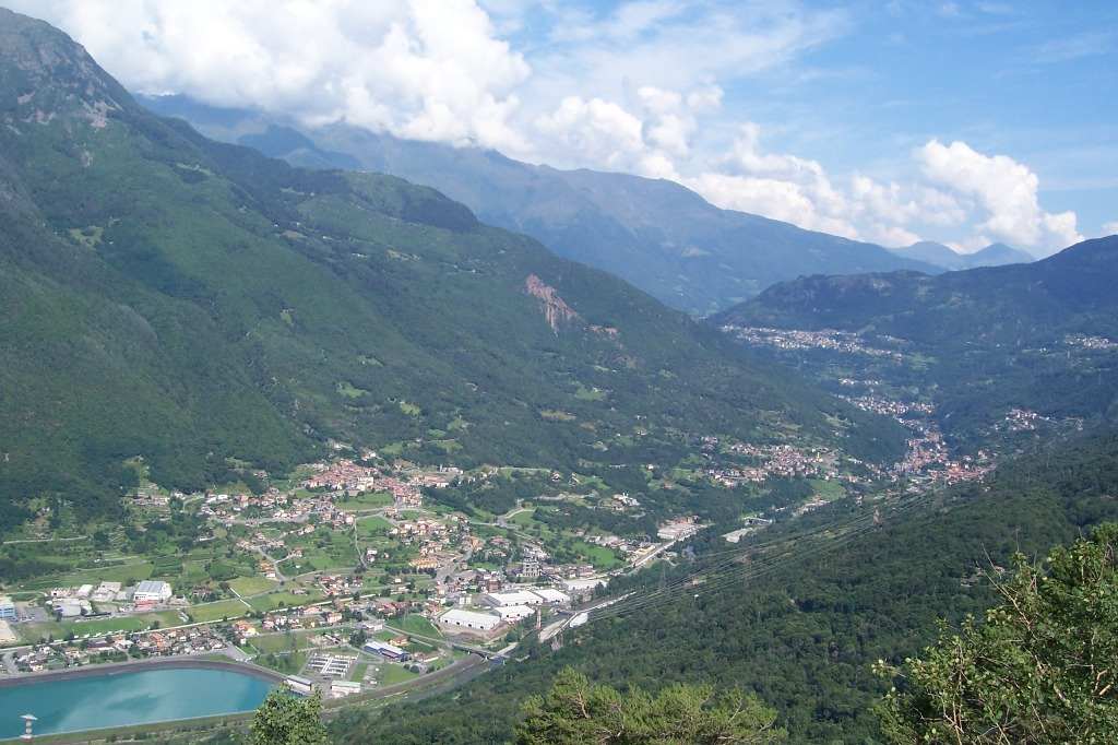 Sellero from Paspardo, Val Camonica